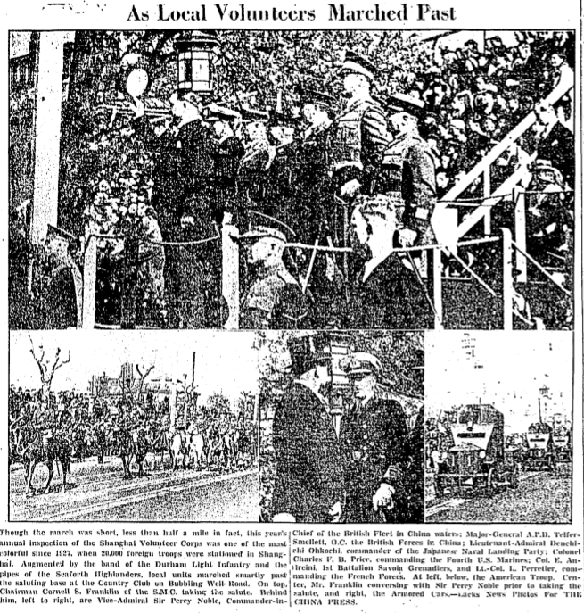 Shanghai, Bubbling Well Road, outside the Country Club. Cornell Franklin, Civil Commandant of the Shanghai Volunteer Corps, takes the salute in the 1938 Annual Parade